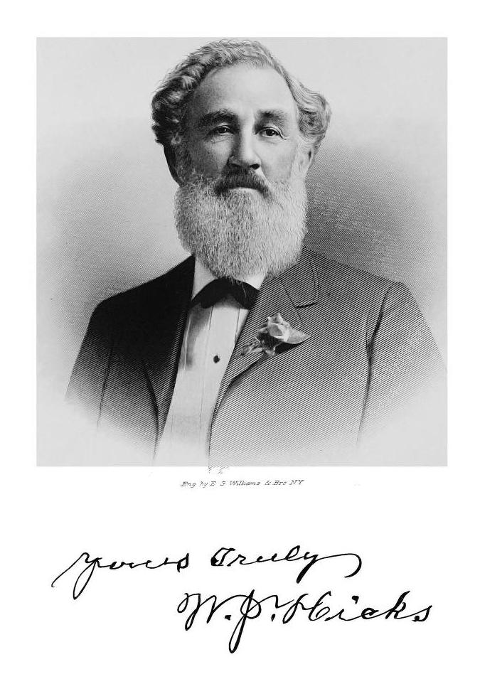 A 1905 engraving of William Jackson Hicks (1827–1911), a North Carolina industrialist and architect, by E. G. Williams and Bro., appearing in the Biographical history of North Carolina from colonial times to the present (1905, p. 167), by Samuel A. Ashe (1840-1938).